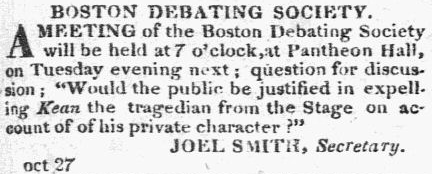 Newspaper item related to Edmund Kean, Boston Debating Society, Pantheon Hall; Boston, Massachusetts